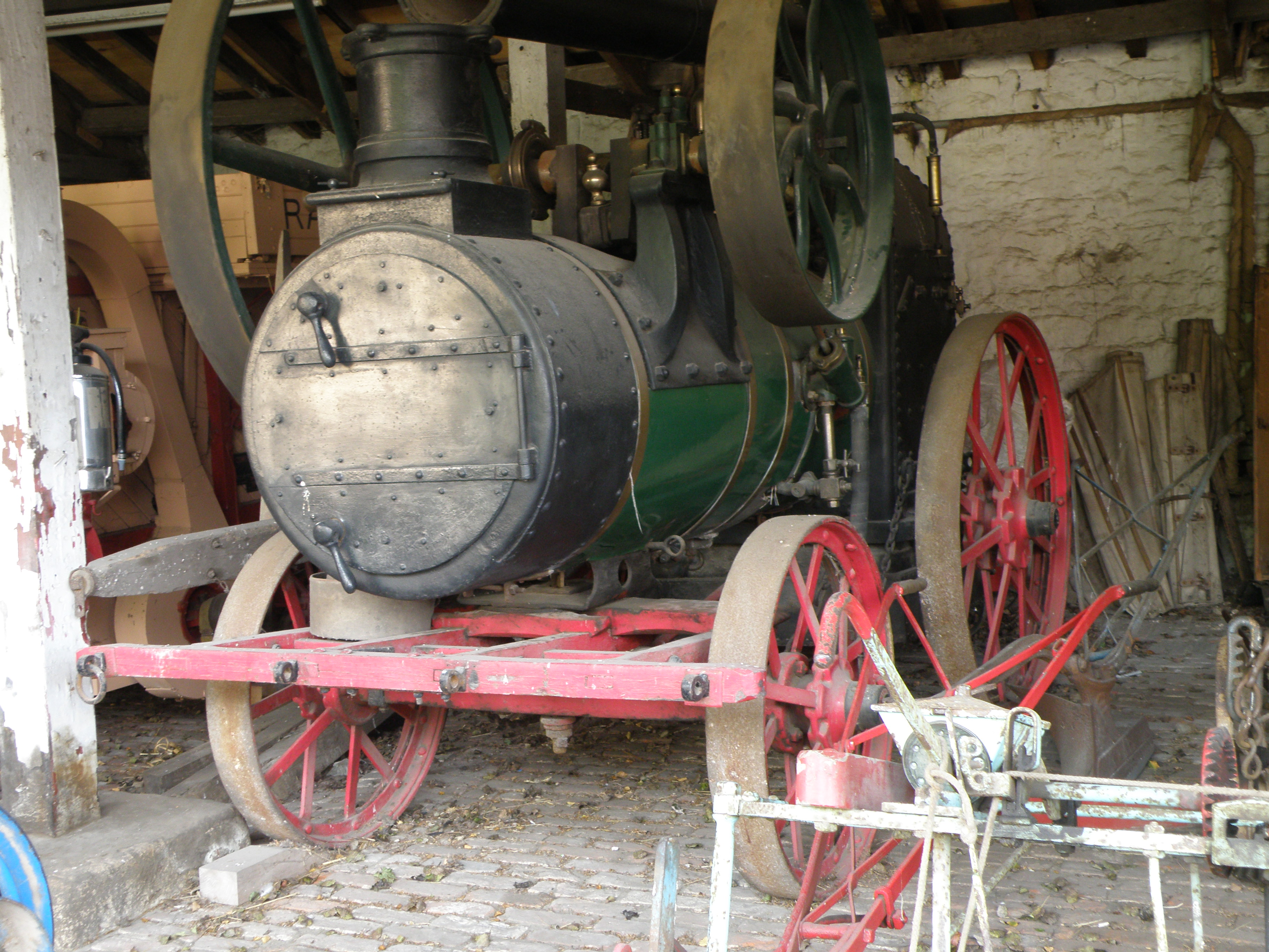 Beamish Museum, County Durham, England. This is a portable engine, built by Richard Hornsby & Sons of Grantham, in Home Farm. It's not owned by the museum (who have at least two others, of different origins), it's part of the Tyne & Wear Museums collection, possibly the 1875 built No. 2958. It's seen here in long term storage inside the tall shed in the northern courtyard of the eastern complex, east of the gin.